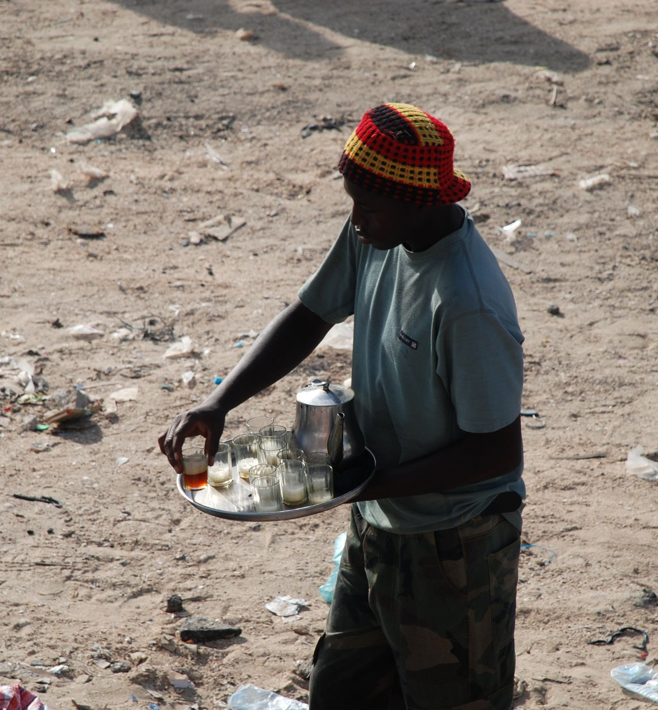 Nouakchott, Mauritania, green tea at central market (Marché Capitale)